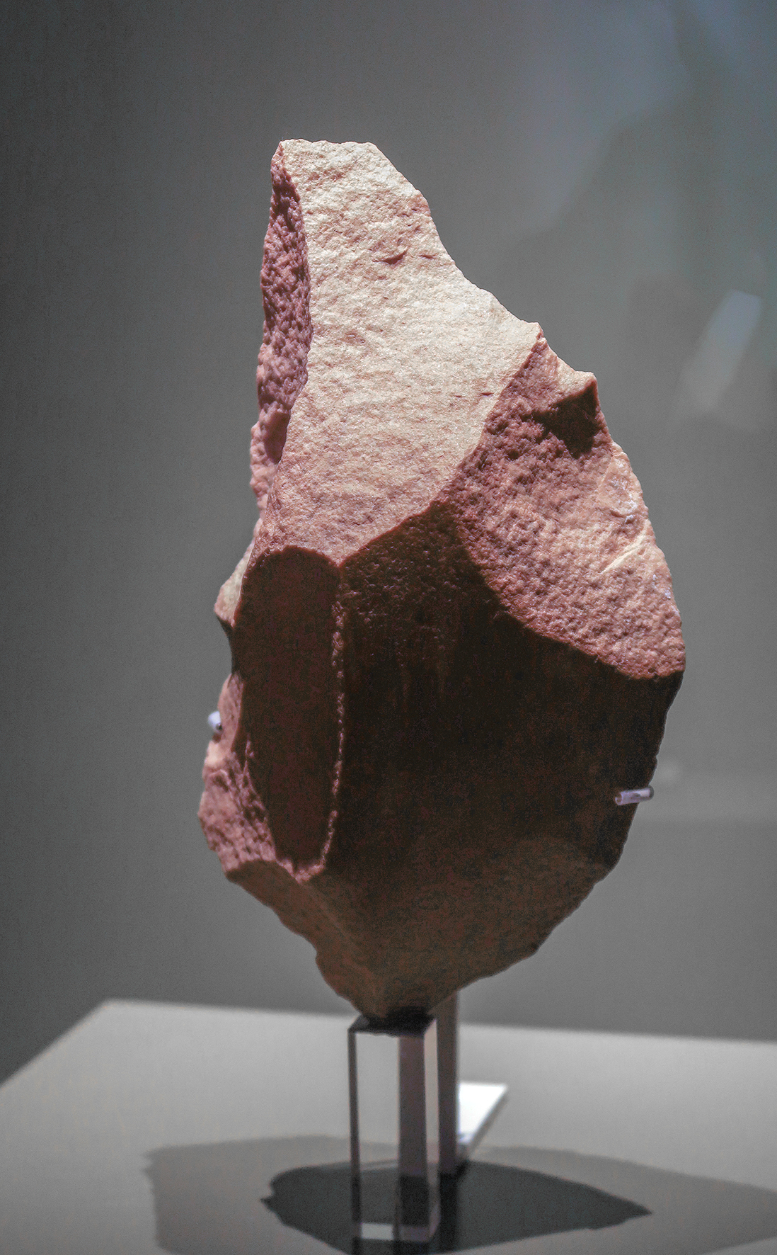 Handaxe. Jeongok-ri. Gyeonggi-do. Lower Paleolithic. National Museum of Korea